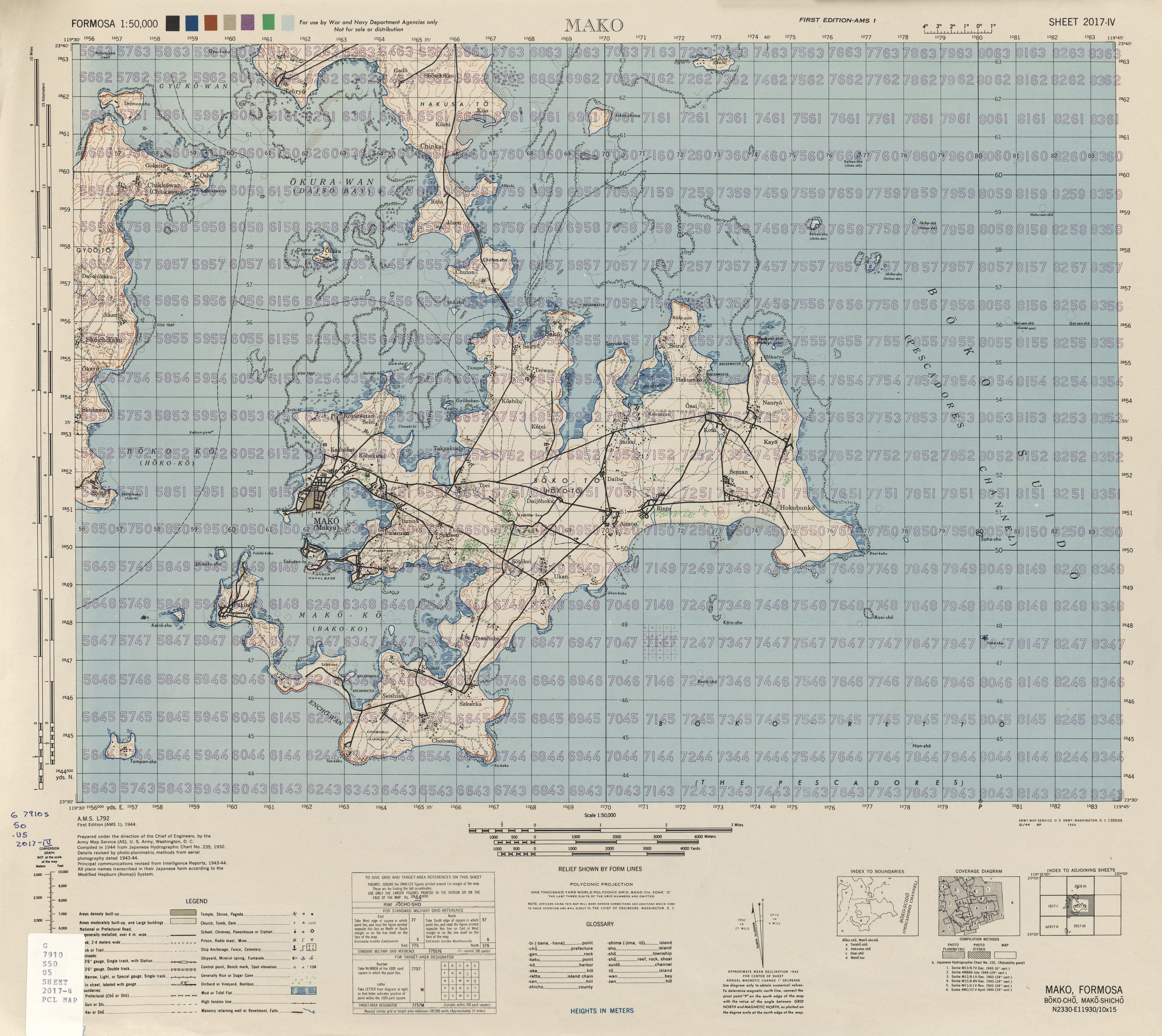 Map from Series L792